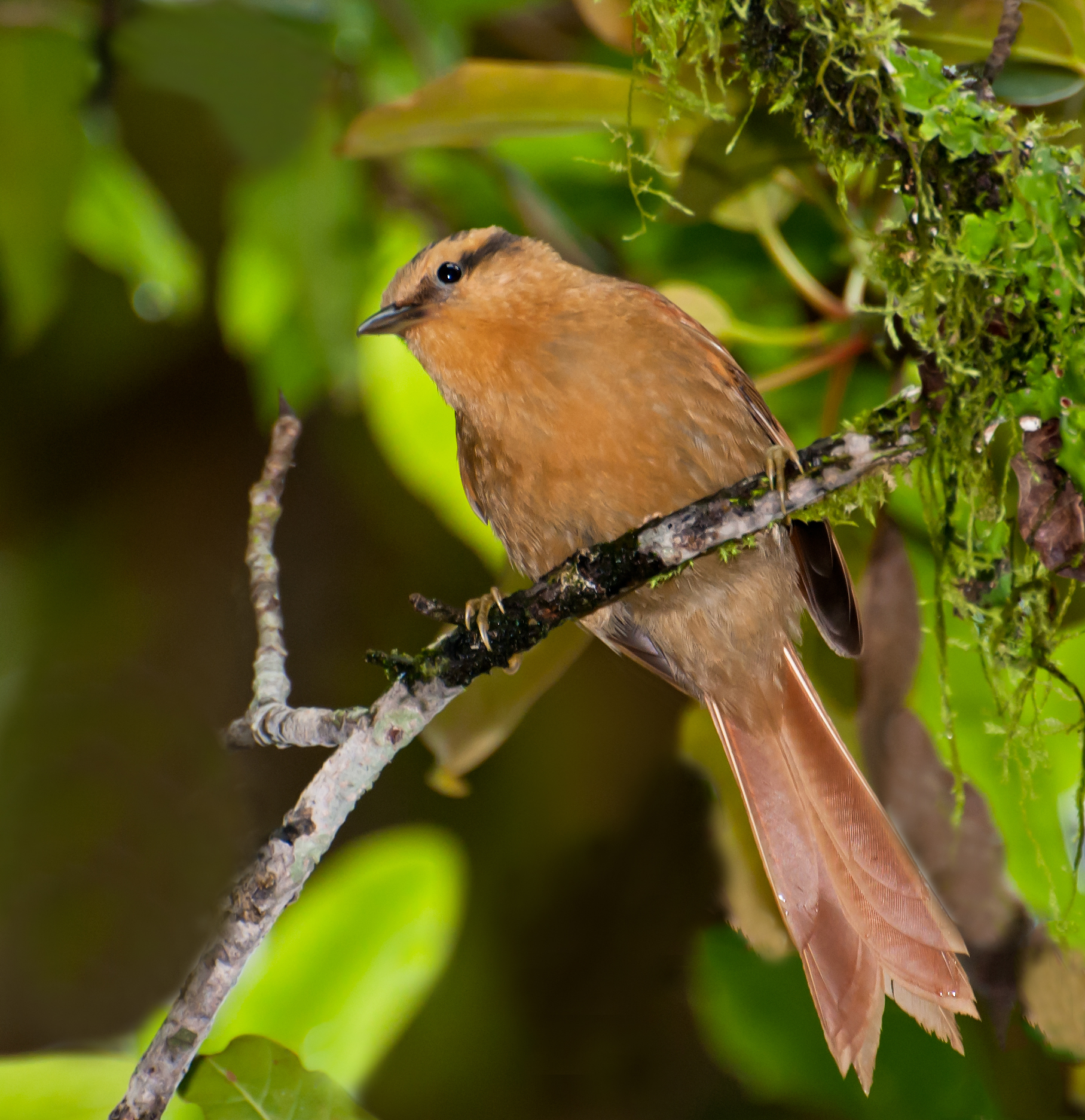 A Buff-fronted Foliage-gleaner in Reserva Guainumbi, São Luis do Paraitinga, São Paulo, Brazil.